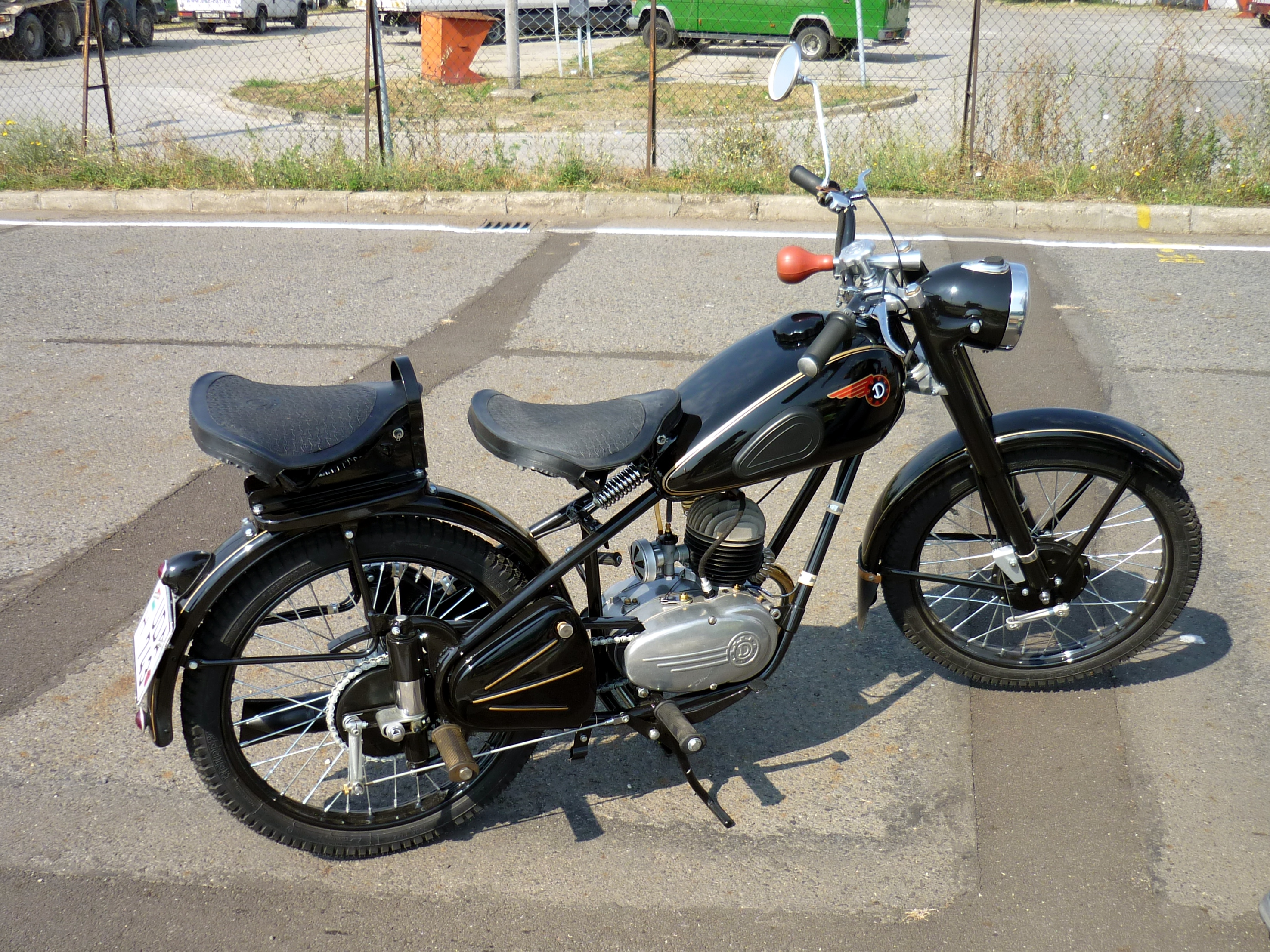 A Hungarian motorbike called D-Csepel 125 in Debrecen. The rearview mirror is not its original part and the rear seat is an aftermarket conversion.